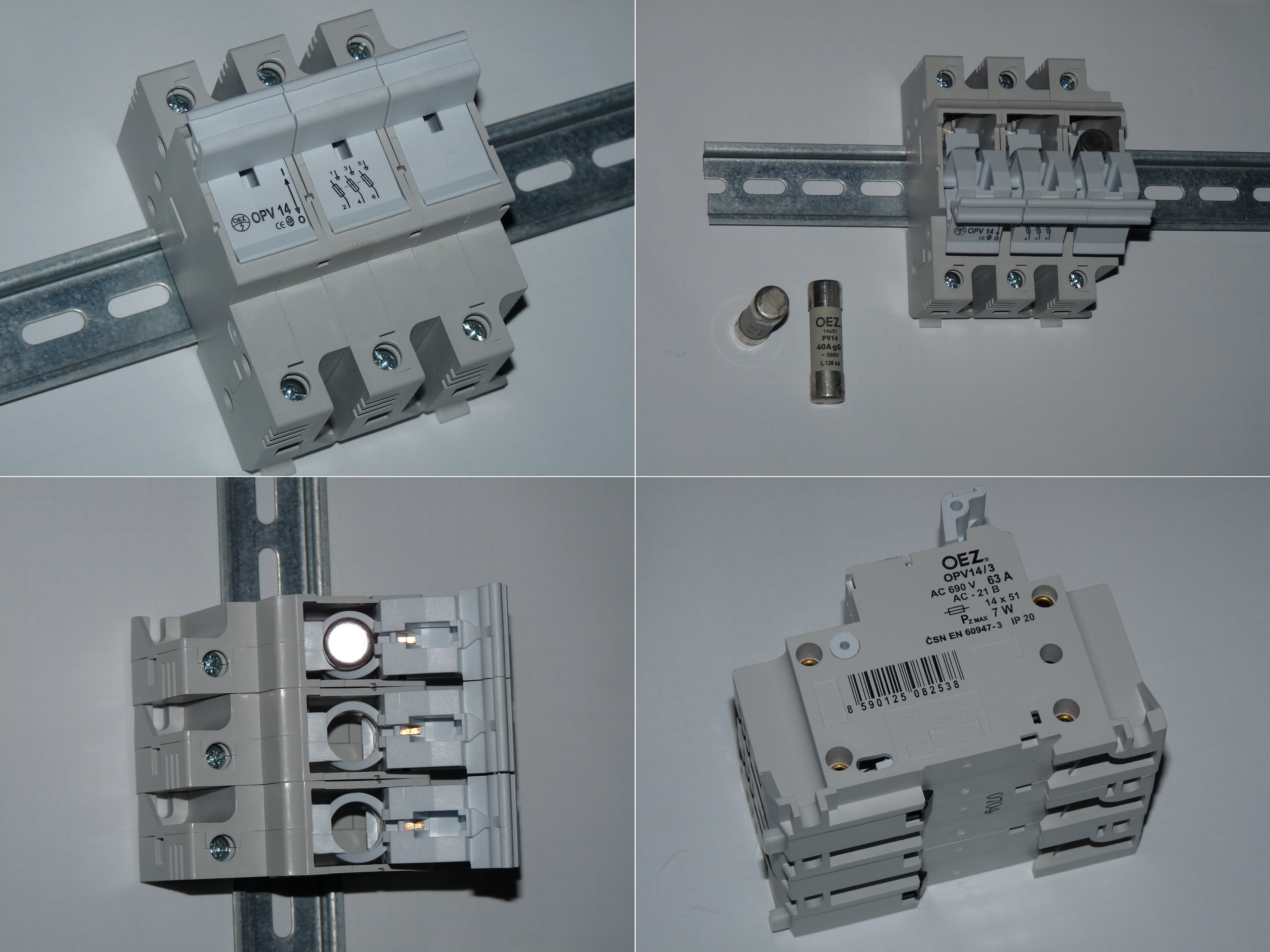 Construction of fuse holder for DIN rail.